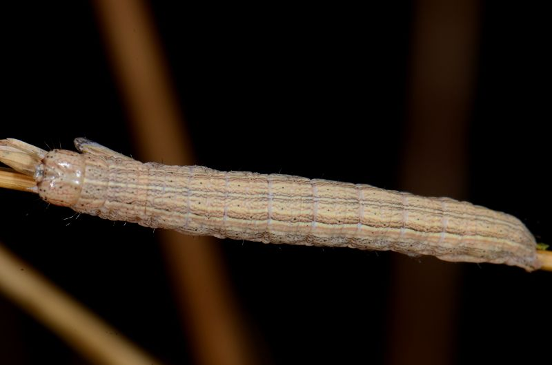 Mythimna impura, larva. Location: The Netherlands - Nationaal Park de Meinweg.